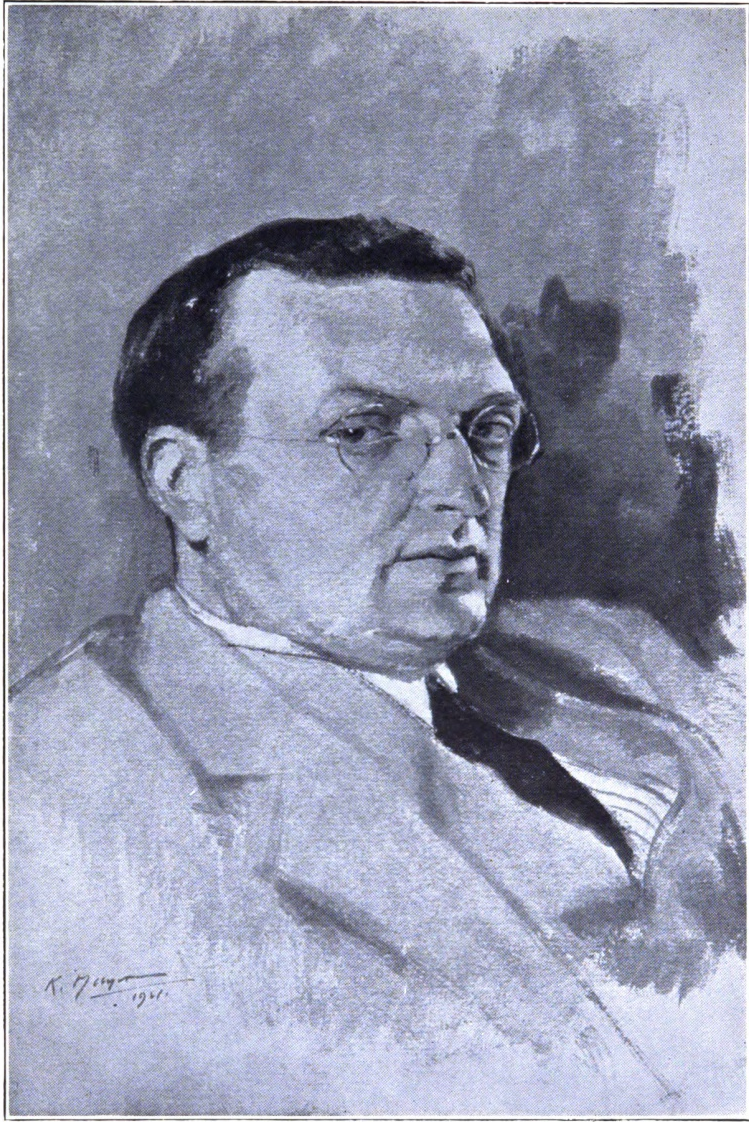 The psychical researcher James Hewat McKenzie